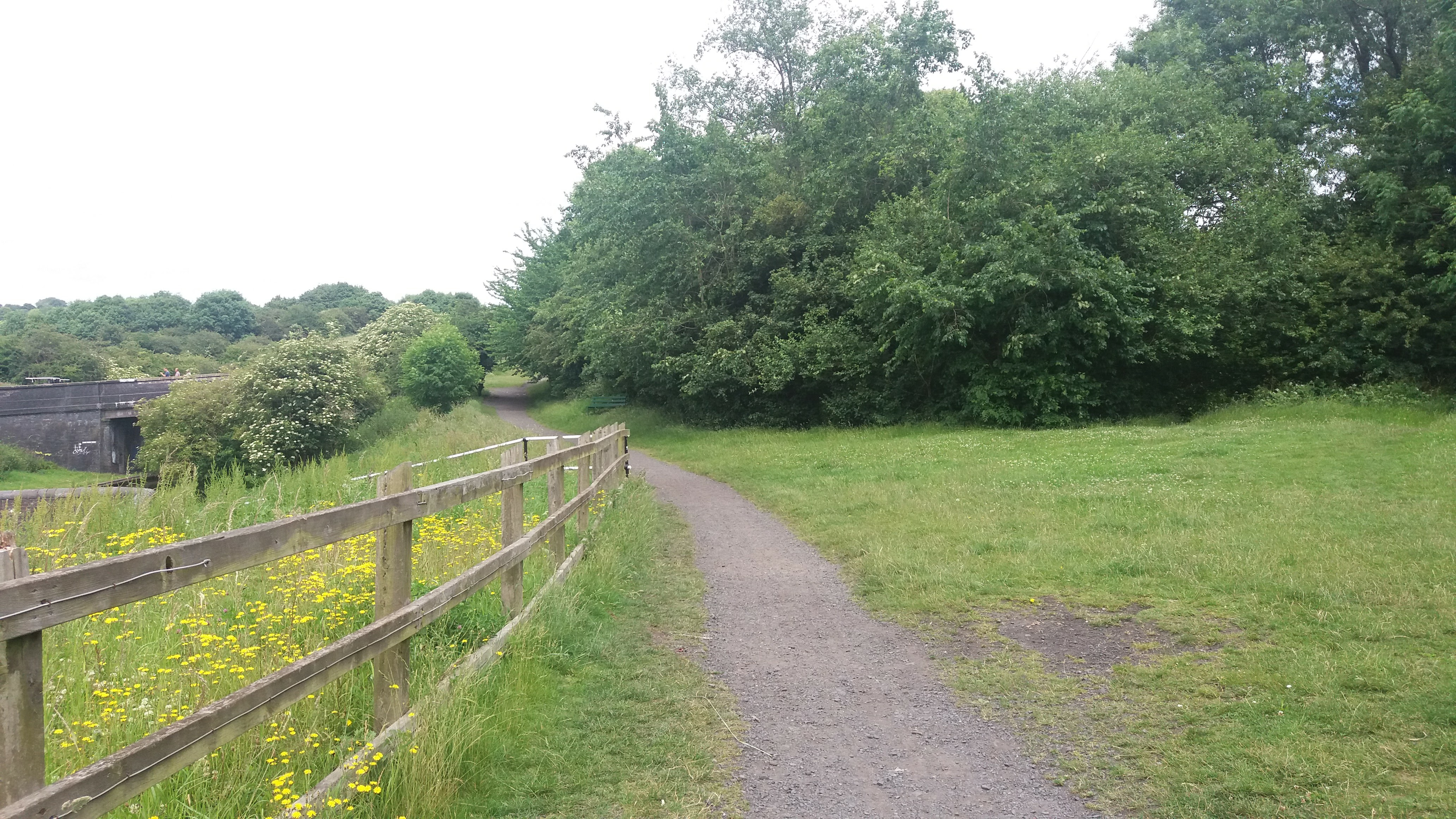 To update the page.